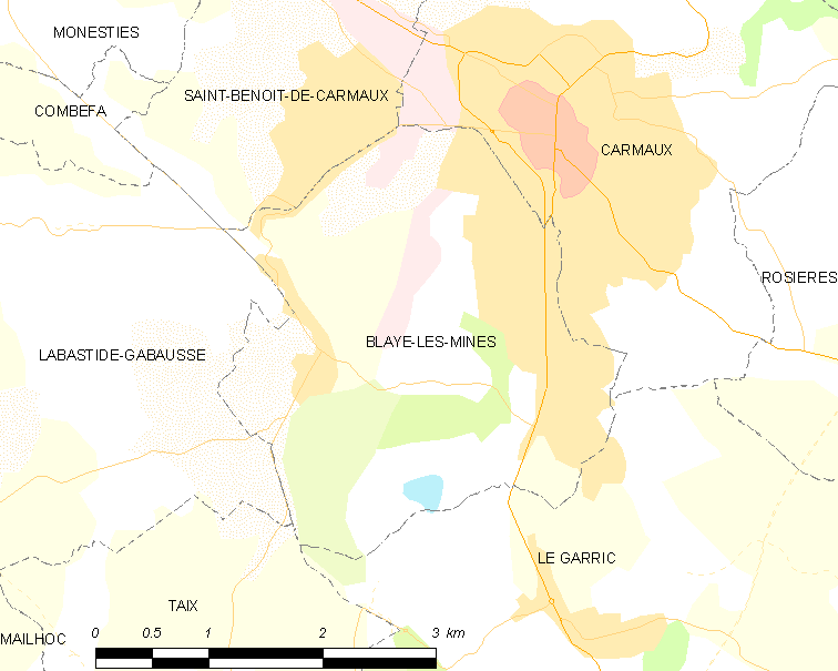 Map of French municipality Blaye-les-Mines